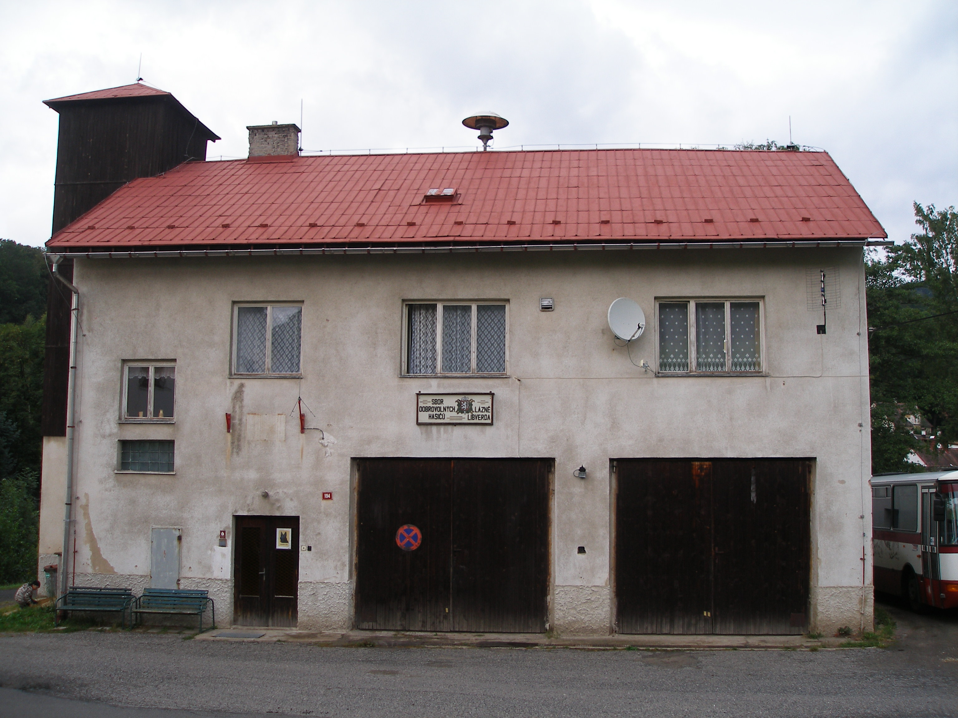 Fire station in Lazne Libverda, Czech Republic